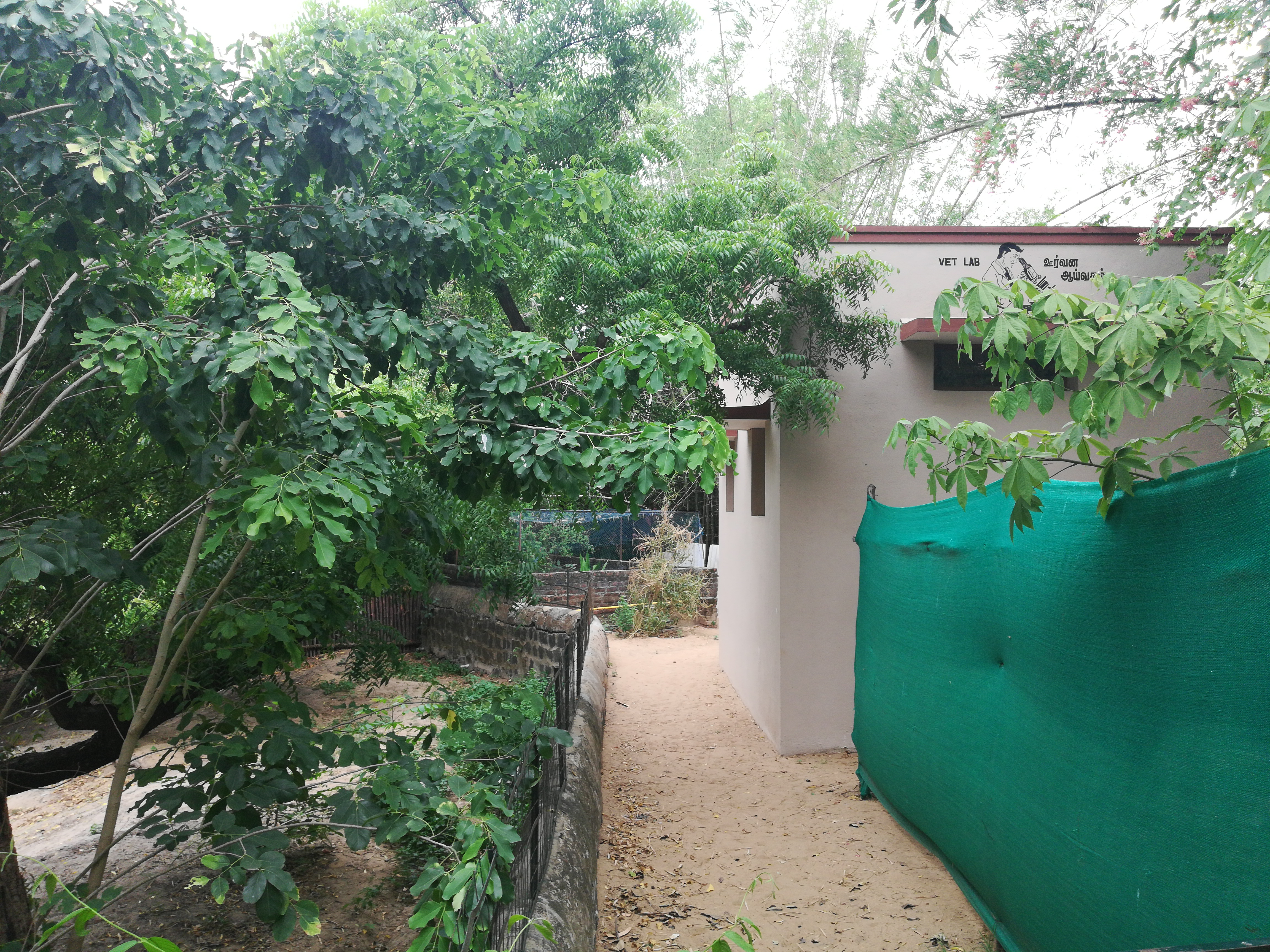 Vet lab at the CrocBank, Chennai, on 21 July 2018